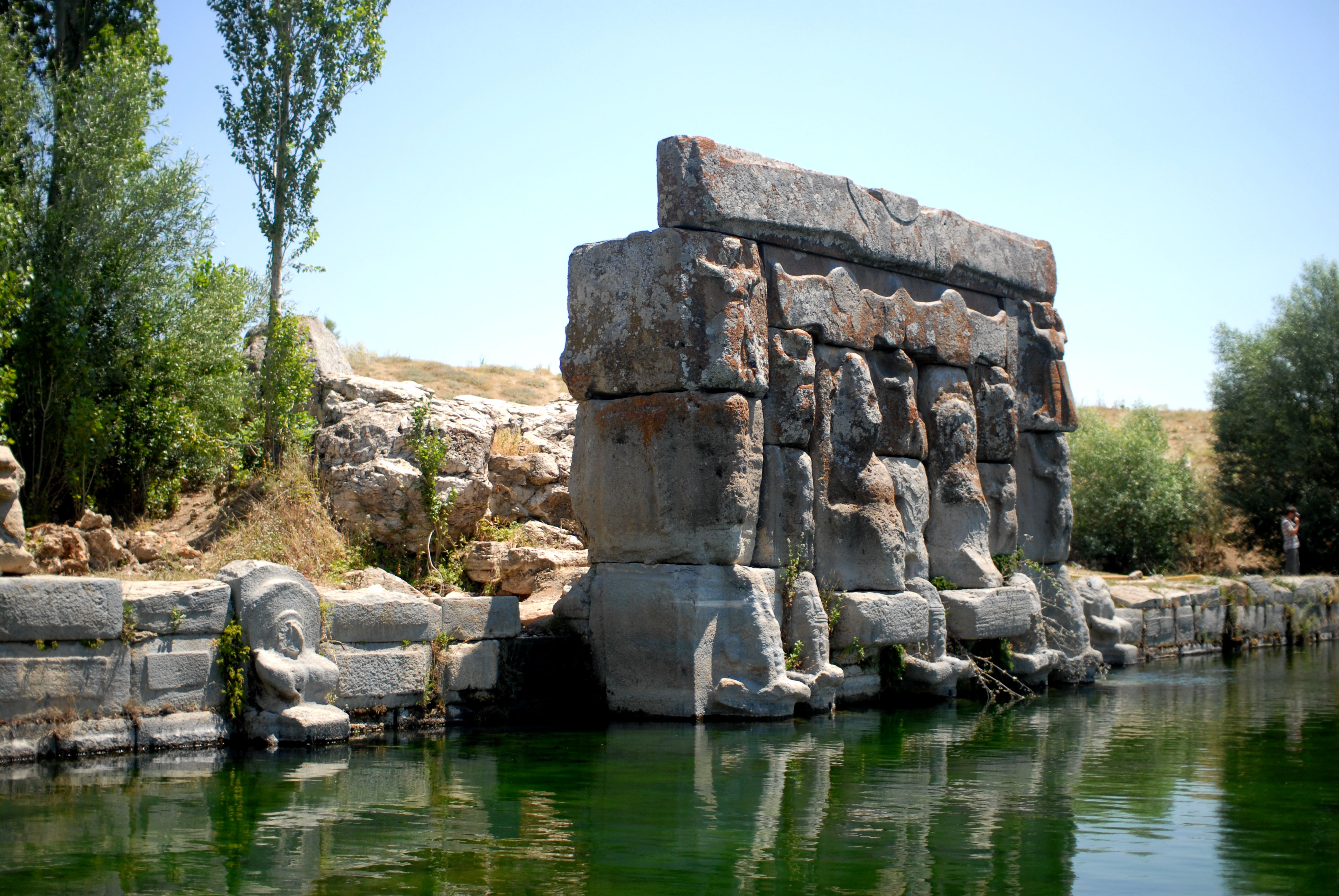 Near Beysehir.